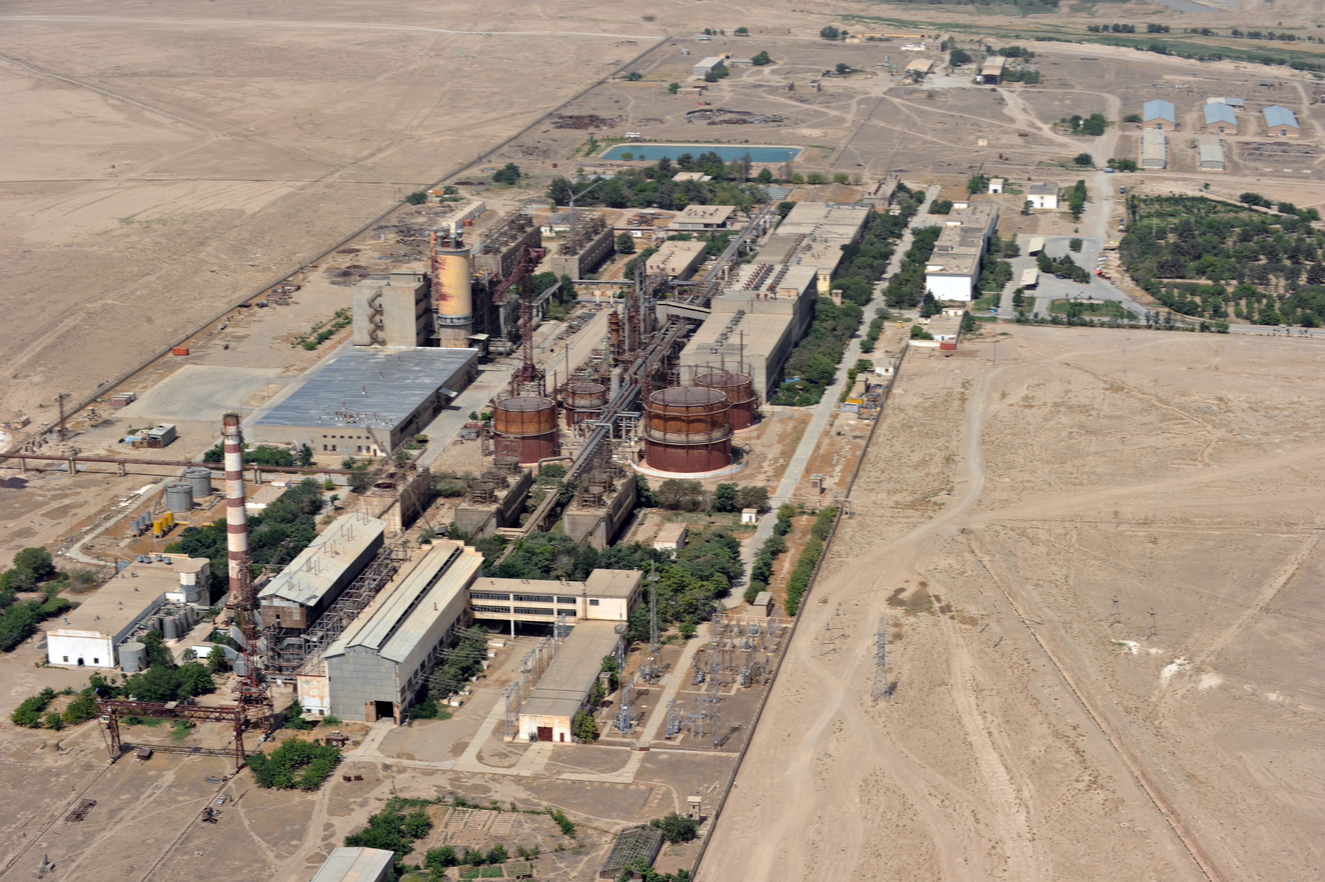 gas fired power station in Mazar-i-Sharif, Balkh province, Afghanistan